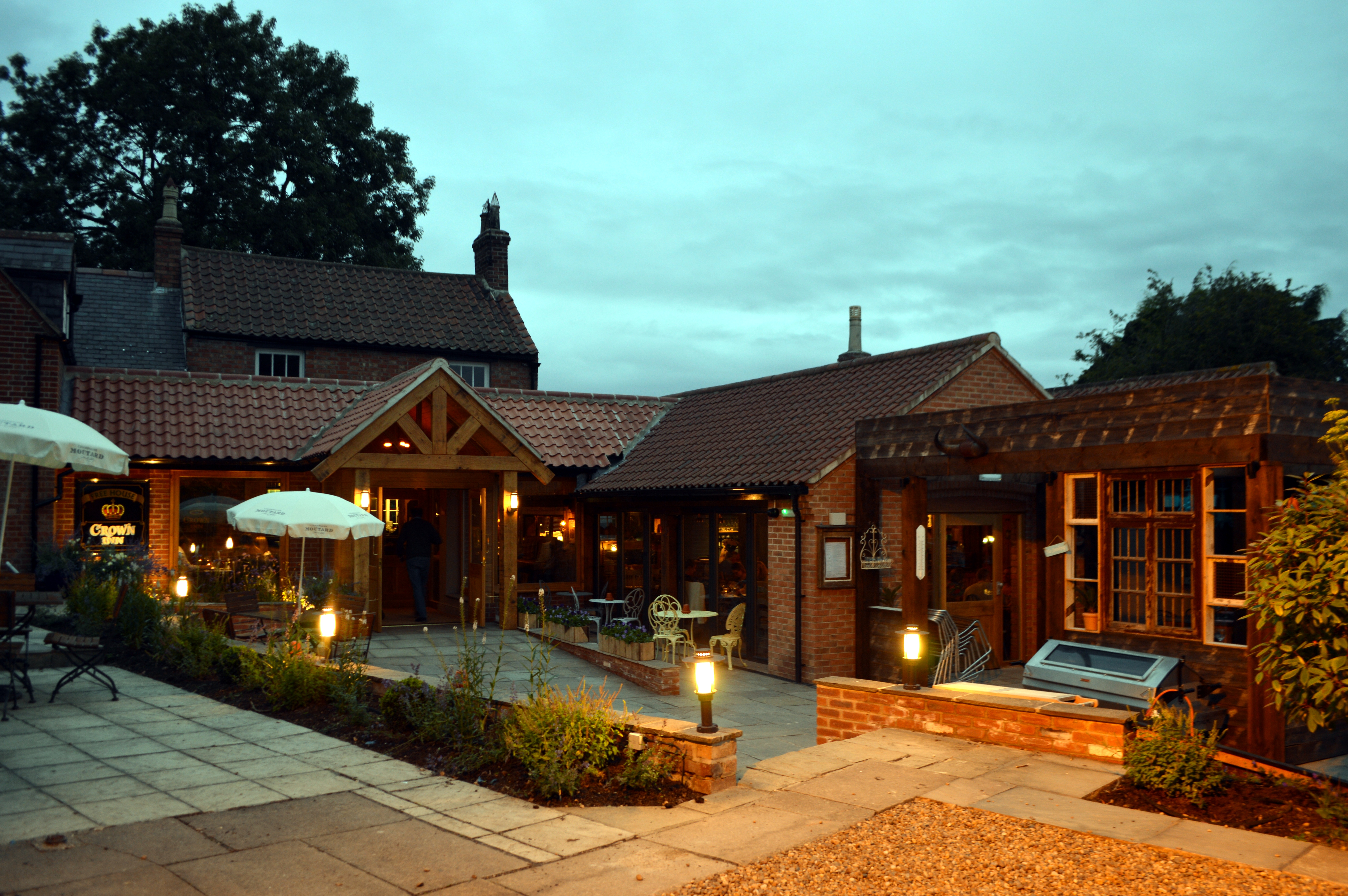 View of the rear of the refurbished Crown, Old Dalby